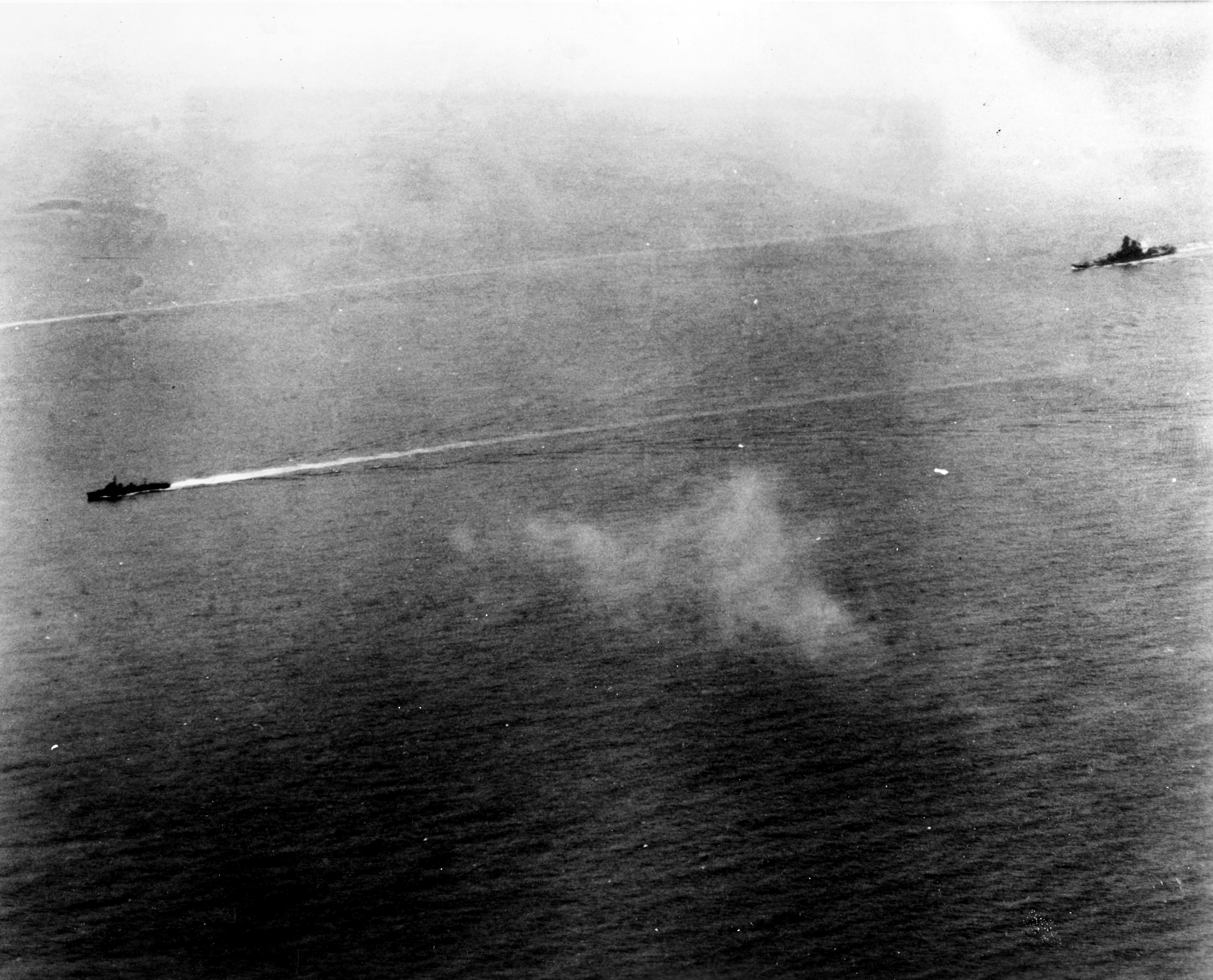 Operation "Ten-Go": The Japanese battleship Yamato listing to port and down at the bow, during attacks by U.S. Navy carrier planes north of Okinawa, 7 April 1945. One of her escorting destroyers is at left. The original photo caption reads: "Japanese battleship Yamato lists to port (at right) just prior to VT-9 (USS Yorktown) torpedo attack, 7 Apr. 1945. She is making 10 to 15 knots. A Japanese destroyer cruises ahead." (Collection of Fleet Admiral Chester W. Nimitz, USN).